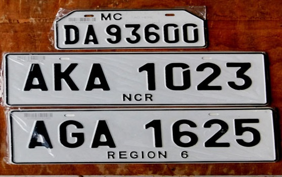 Yet to be used, Philippine license plates issued by the Land Transportation Office.